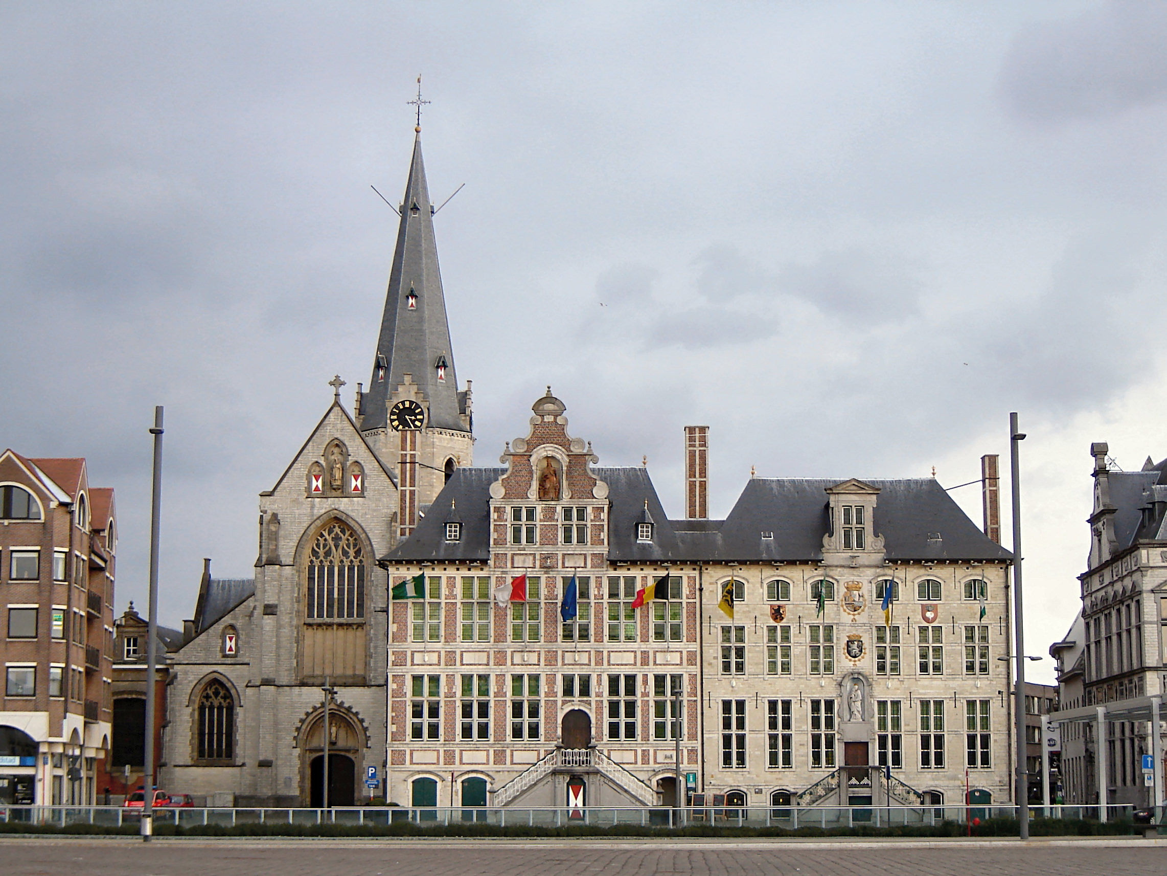 "Grote Markt" market square of Sint-Niklaas, with the church of Saint Nicholas, the "Prochiehuis", and the "Ciperage". Sint-Niklaas, East Flanders, Belgium